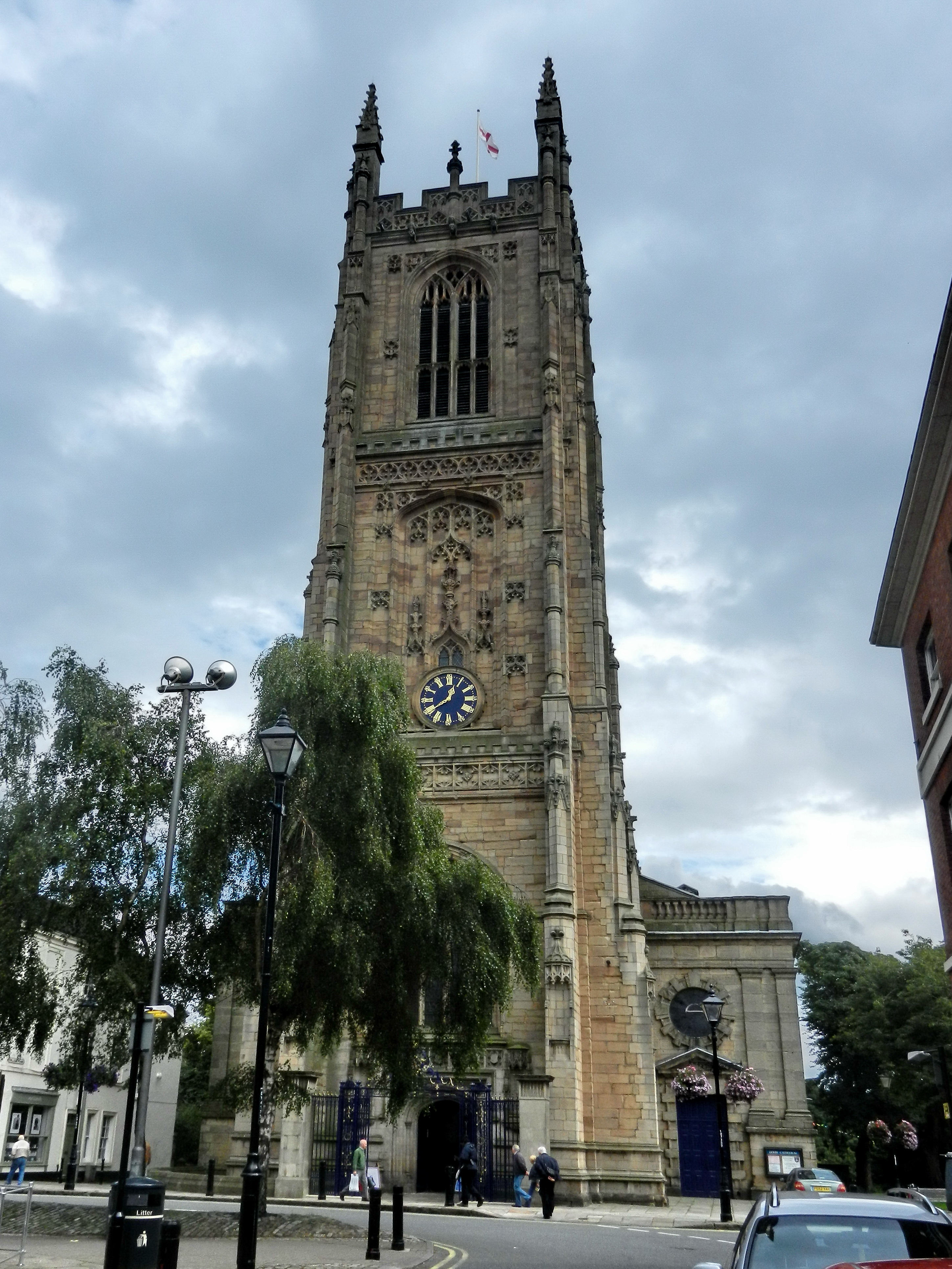 Derby Cathedral